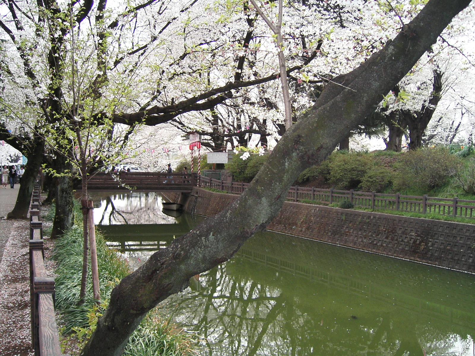 Ruin of Koizumi castle in Gunma pref,Japan 小泉城跡 堀